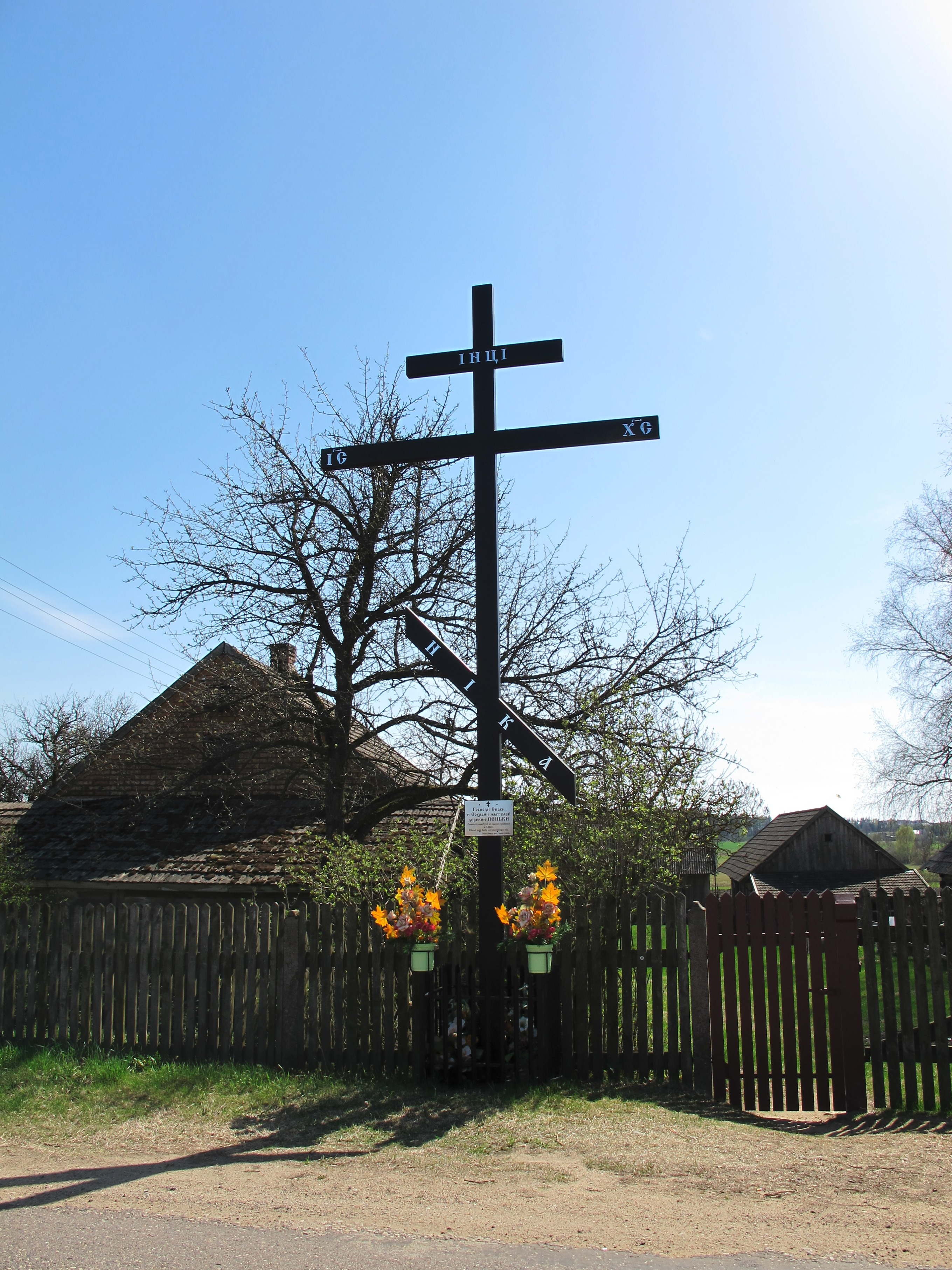 Cross in Pieńki, gmina Michałowo, podlaskie, Poland